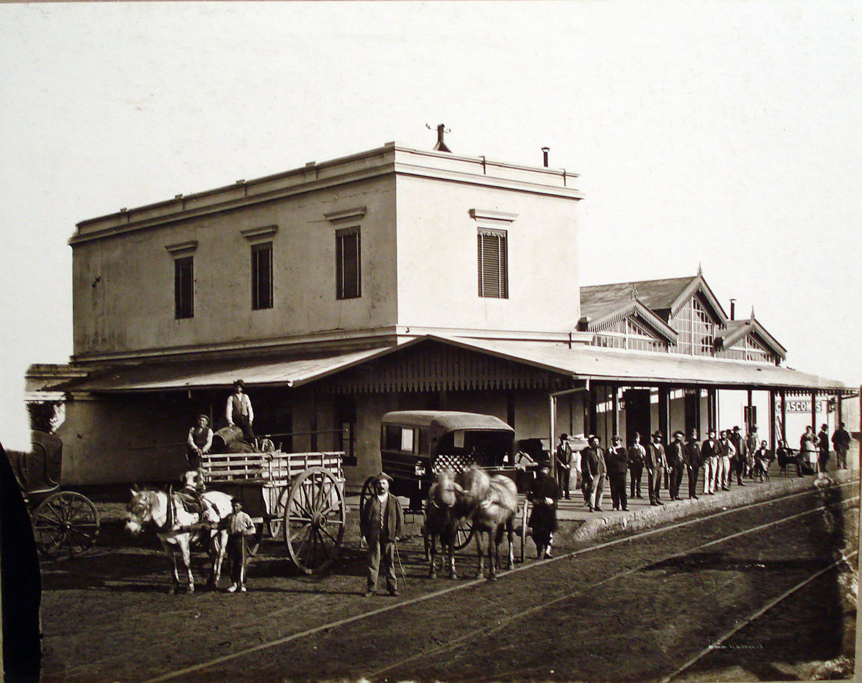 Chascomús railroad station of the Buenos Aires Great Southern Railway. Some inhabitants of the city with their carriages are also displayed in the image.